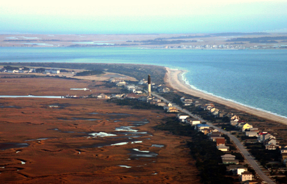 Oak Island Light as seen from the air looking east. The Cape Fear River and Bald Head Island are in the background.